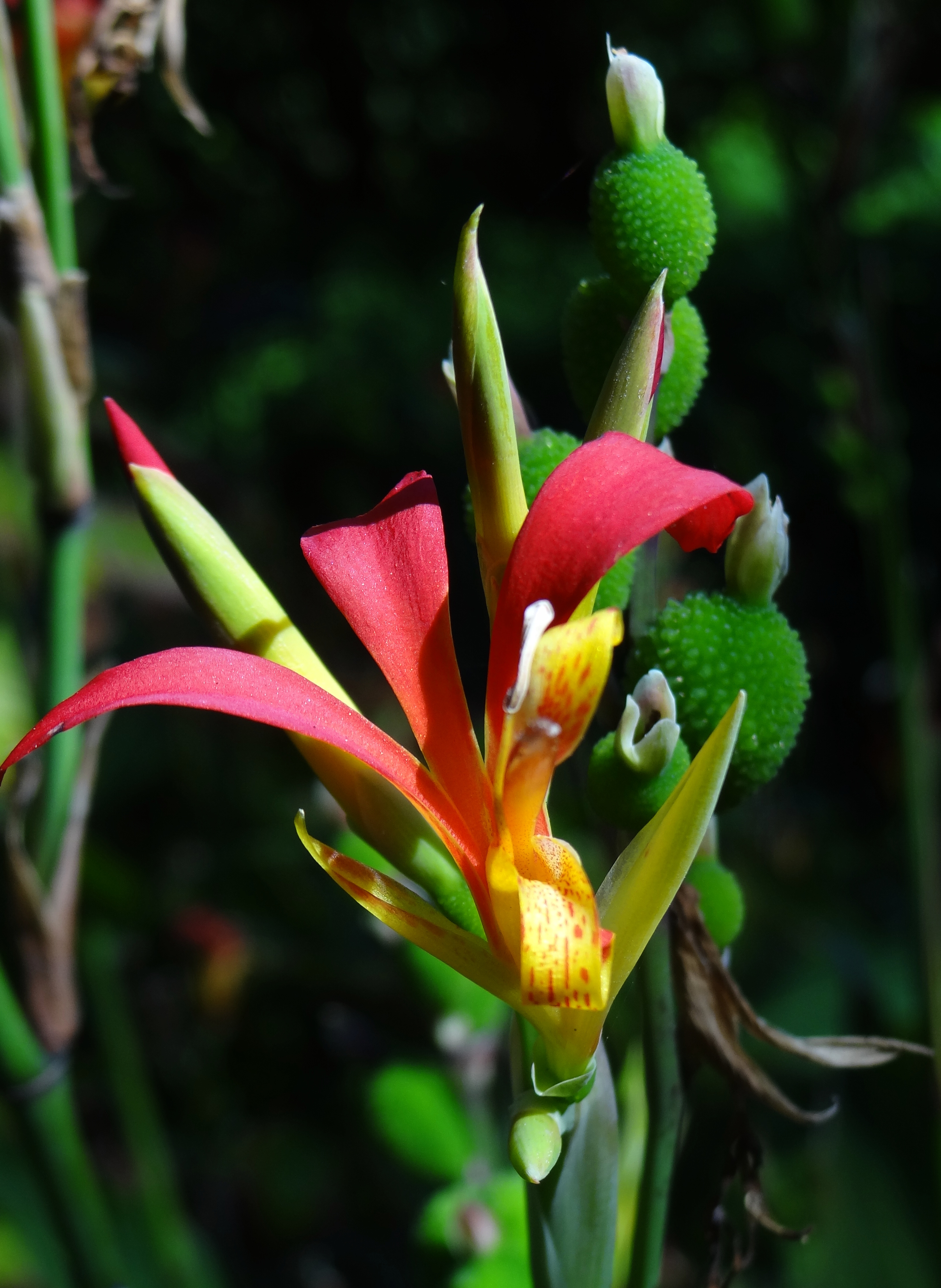 Canna indica in the San Francisco Botanical Garden